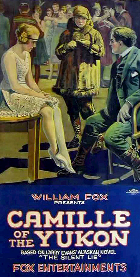 Poster for the 1917 film Camille of the Yukon AKA The Silent Lie. The film was reissued in 1920 under the "Camille" title. This is considered to be a lost film.